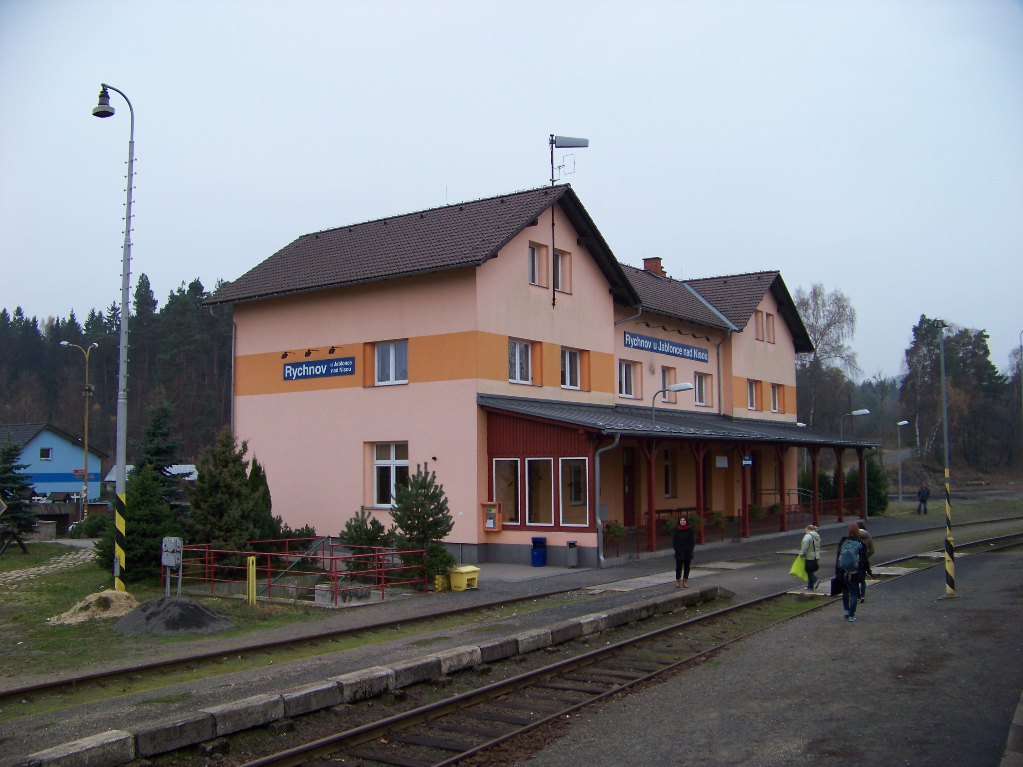 Rychnov u Jablonce nad Nisou, Jablonec nad Nisou District, Liberec Region, Czech Republic. A train station. - Google Maps - Google Earth